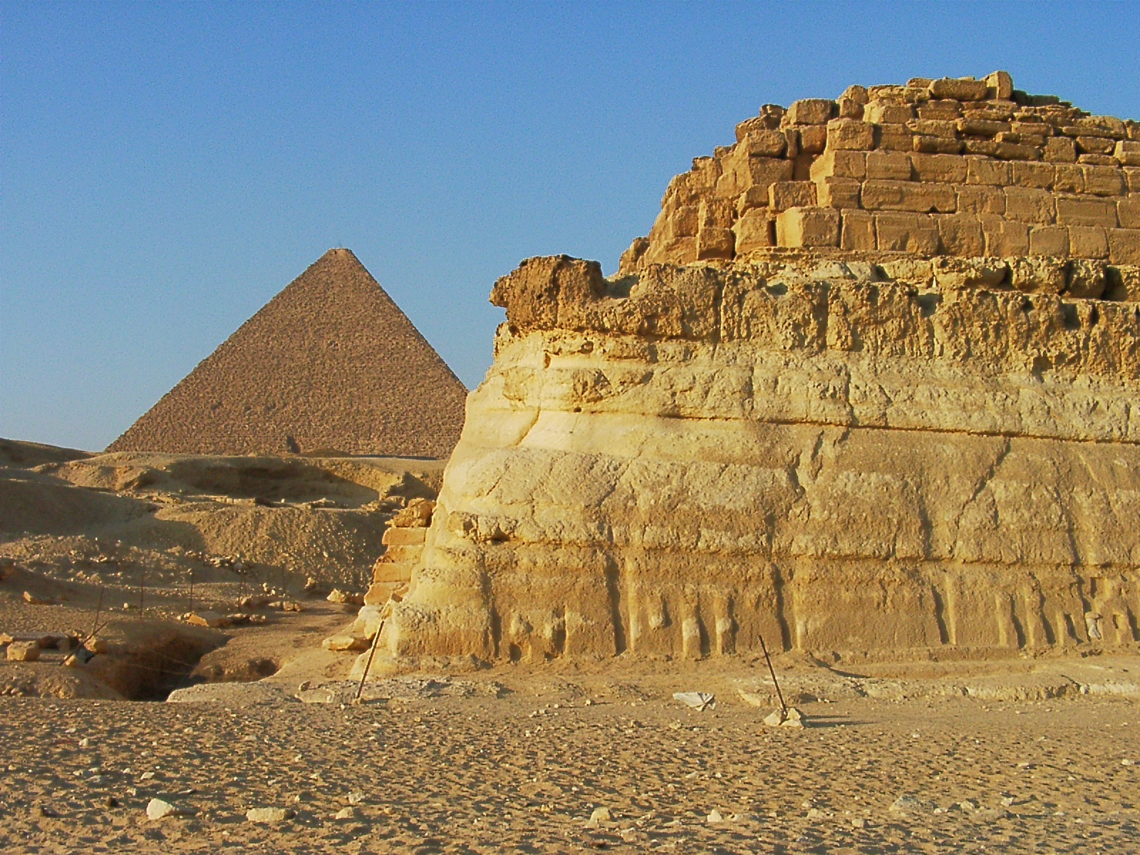 Khentkawes I's double mastaba and its palace facade. Behind left the Great Pyramid